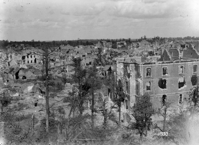 A general view over Bapaume taken from the Citadel. Shows the huge amount of destruction to the town during World War I. In the foreground, some of the trees have been damaged. Photograph taken 30 August 1918 by Henry Armytage Sanders.